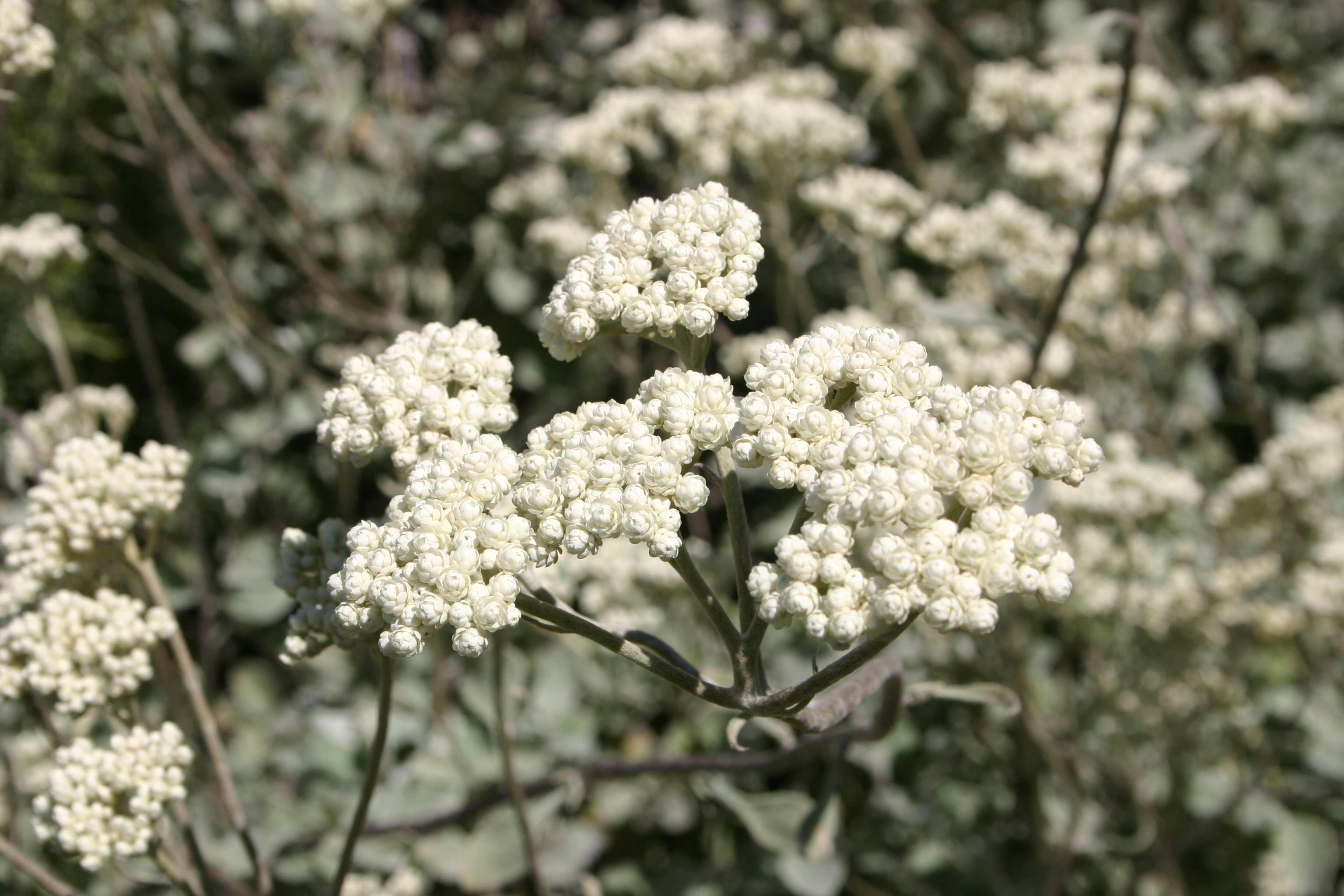 Flowerheads of Helichrysum petiolare Hilliard & B.L.Burtt, Nature's Valley, South Africa